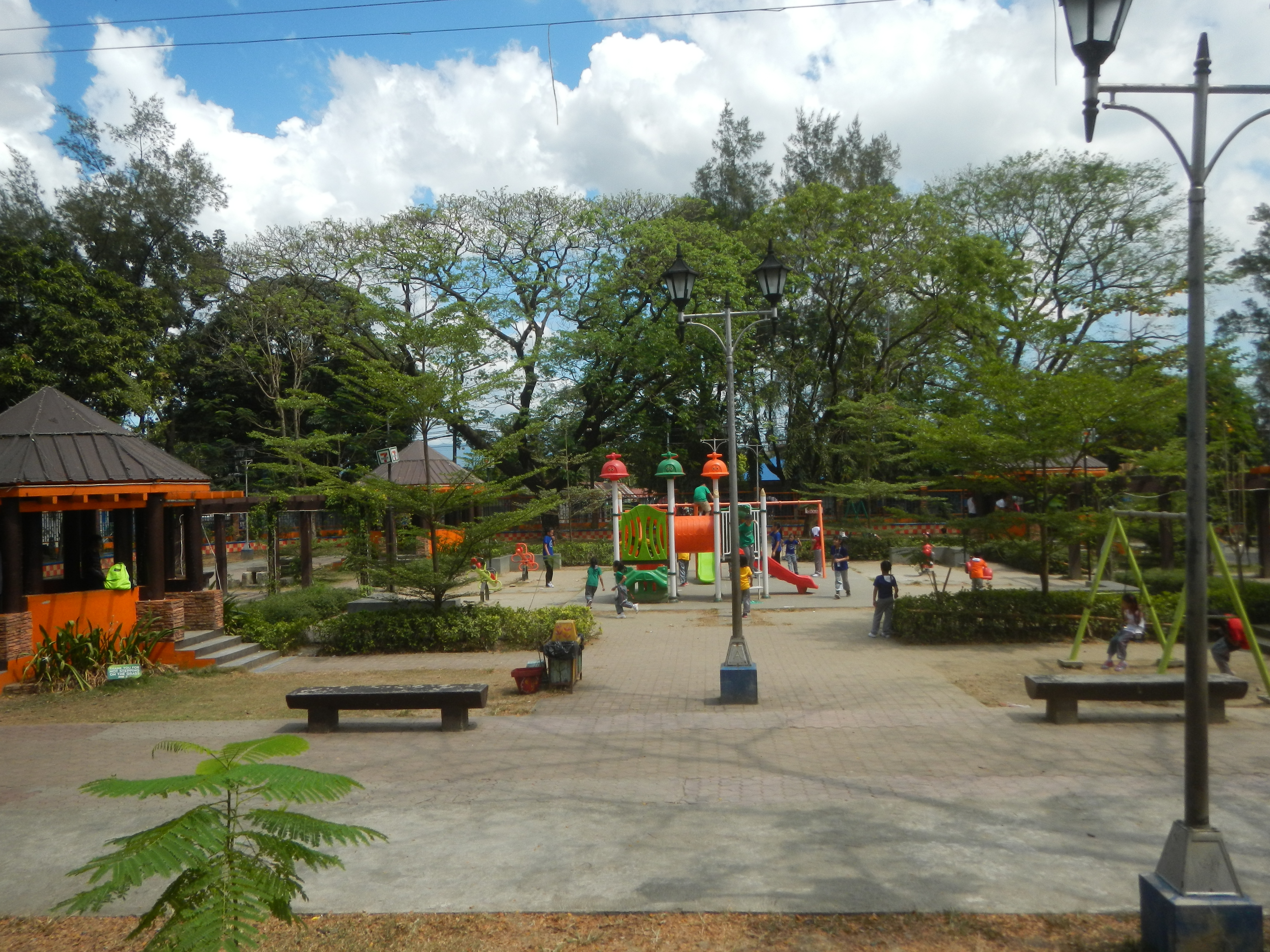 Glorietta Park & 7-Eleven Every Day!Play (PhilSeven Foundation, Inc.) of Barangays 187 & 188, Tala, Caloocan City Quirino Highway Barangay 185, Tala (Malaria), Zone 16, District 1, Caloocan City Barangay 185 Hall- Malaria 14°46'10"N 121°4'46"E Barangay 186 14°46'2"N 121°4'14"E Barangay 186 (Saint Joseph - Barracks Tala), Caloocan City Cbeside Barangays 187 and 188 (Tala), Zone 16, Caloocan City Holy Rosary College Foundation (Tala, Caloocan City) Our Lady of the Holy Rosary Parish Church (Tala, Caloocan City) Rev. Fr. Anthony Leo Hofstee Barangays of Caloocan, Barangays 187 and 188 (Tala), Zone 16, Caloocan City (Note: Judge Florentino Floro, the owner, to repeat, Donor Florentino Floro of all these photos hereby donate gratuitously, freely and unconditionally all these photos to and for Wikimedia Commons, exclusively, for public use of the public domain, and again without any condition whatsoever).